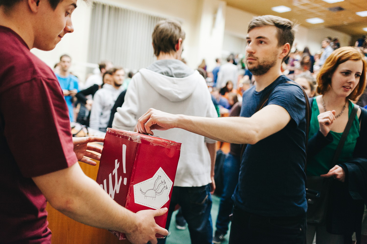 Film festival of Faculty of Informatics voting